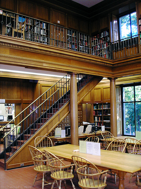 The library of the Frick FIne Arts Building at the University of Pittsburgh. photo by Michael G White